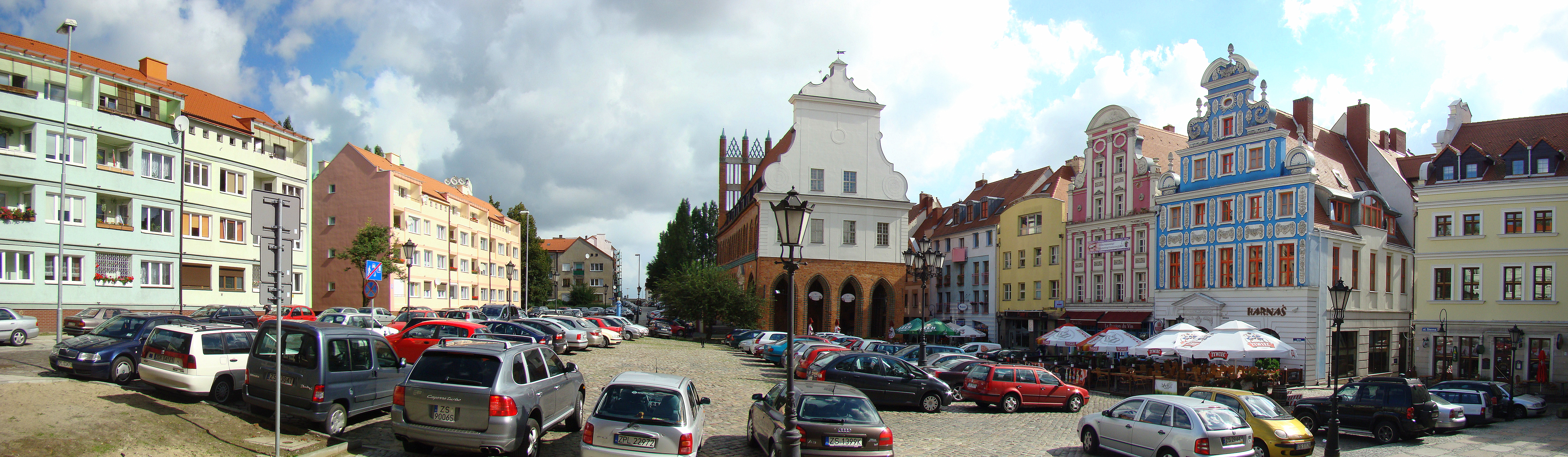 Hay Market (Sienny Square), Szczecin, Poland